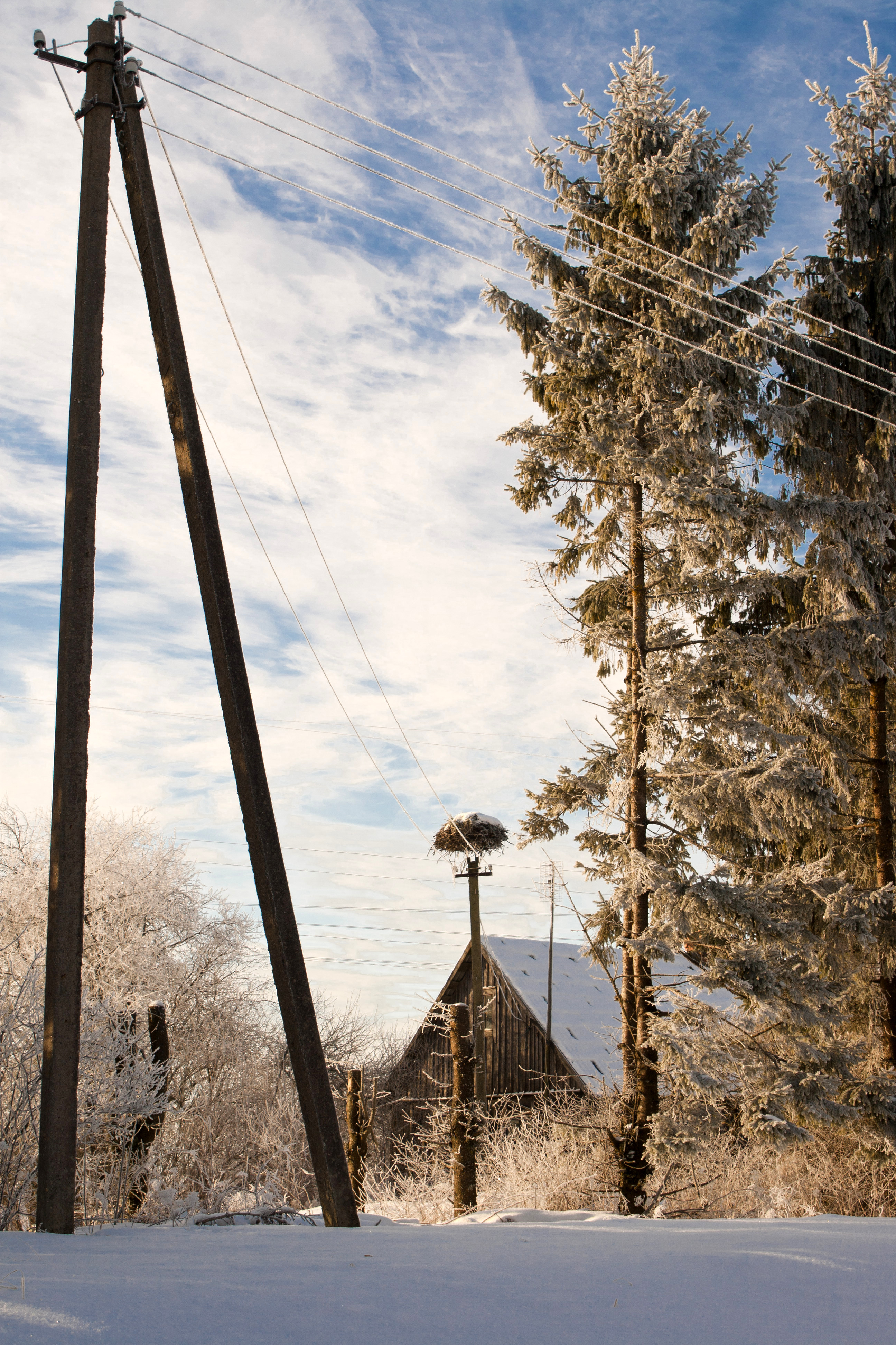 a storks nest